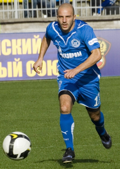 Alessandro Rosina against CSKA Moscow